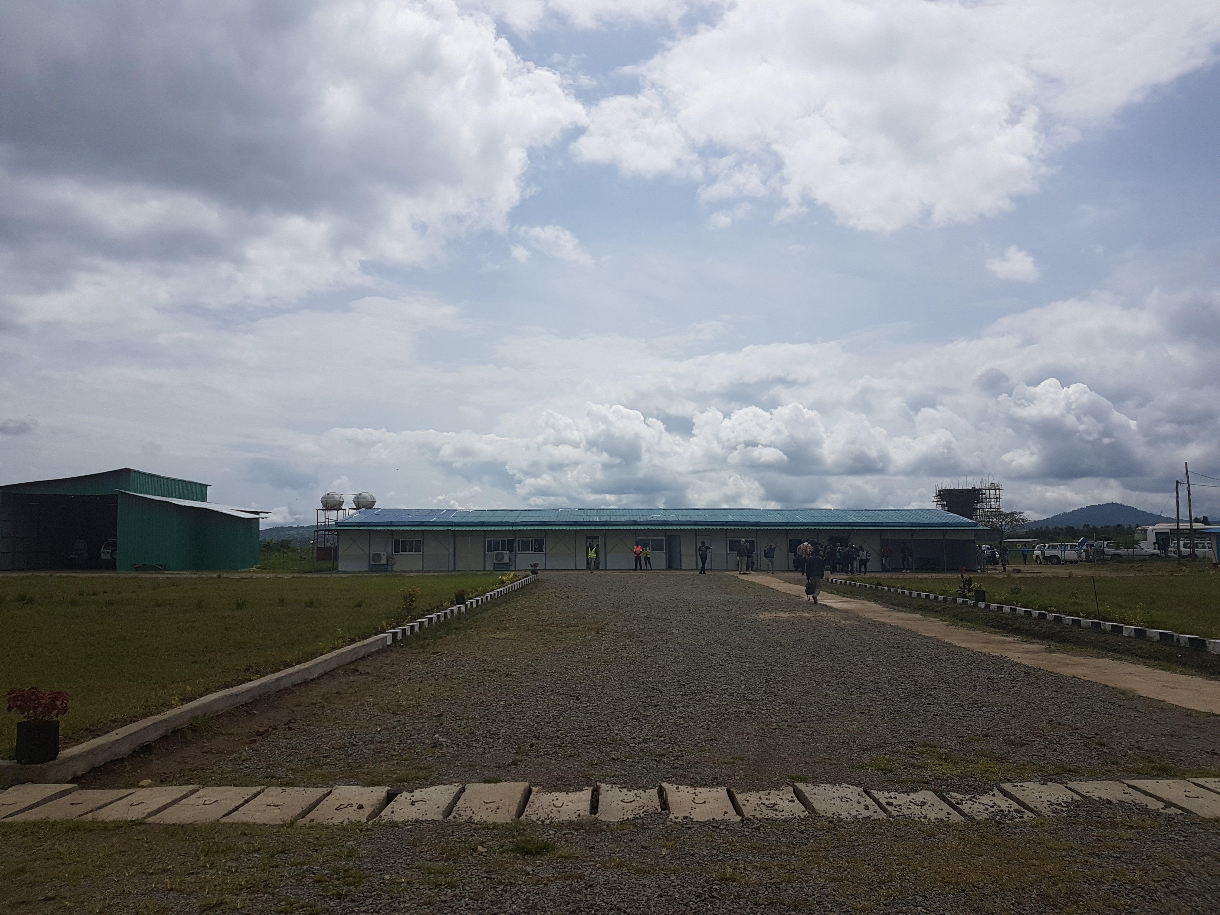 Jinka Airport, SNNPR, Ethiopia, June 2018.